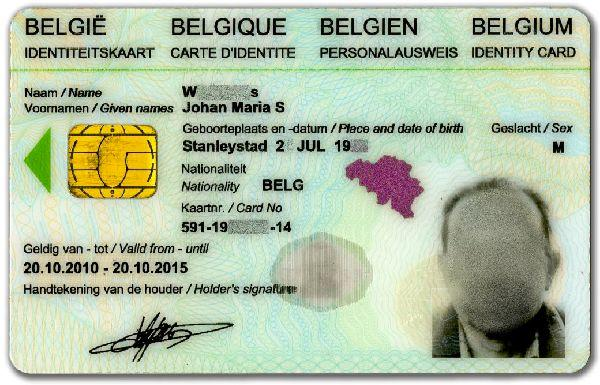 National identity card of Belgium (dutch)